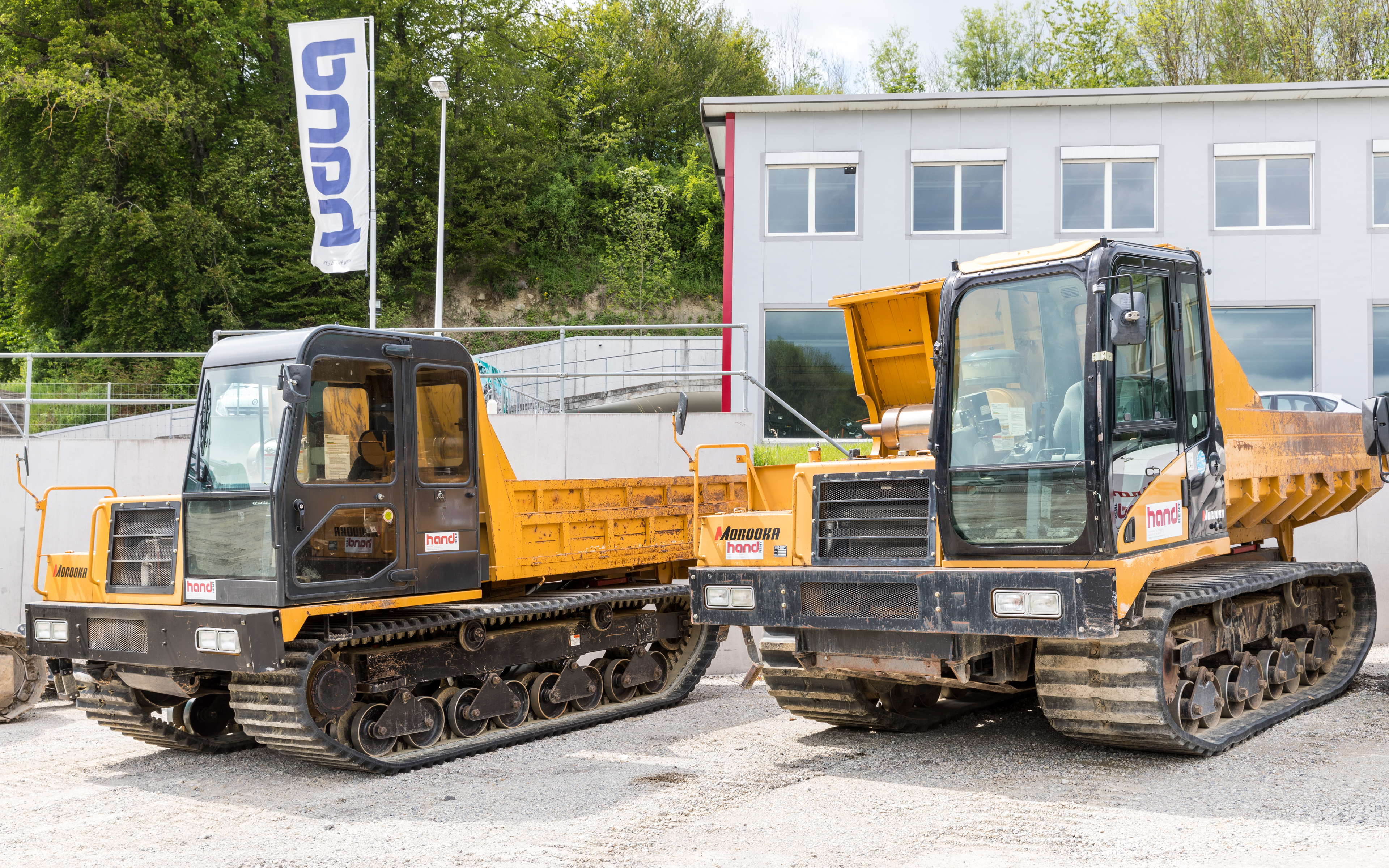 2 Morooka tracked dumpers for rent.